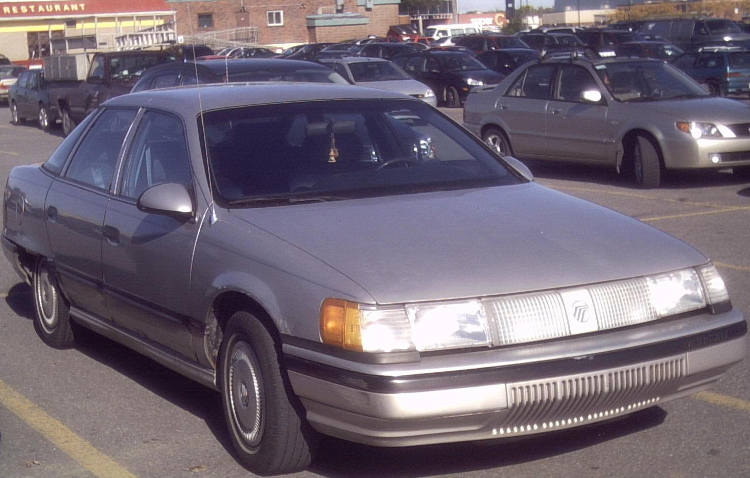 1986-1988 Mercury Sable GS photographed in Montreal, Quebec, Canada.